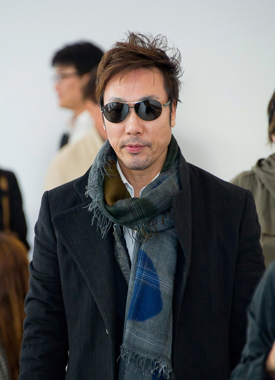 Lee Moon-se at Jain Song 2012 Spring/Summer Season Collection, Beyond Museum, Cheongdam-dong, Gangnam-gu, Seoul, in October 2011